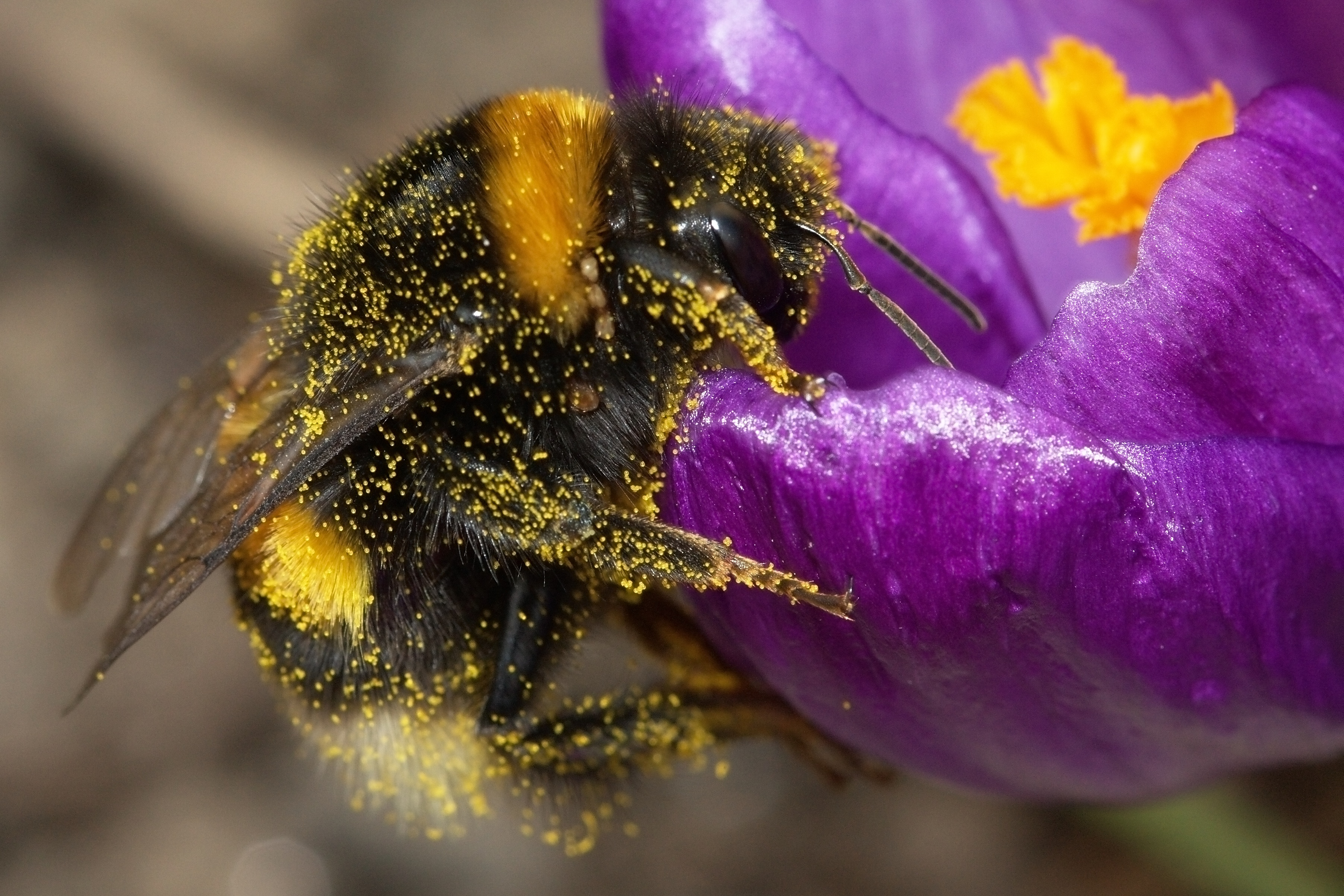 Camera: Canon 450d, F2.8 100mm macro Shot at early spring.